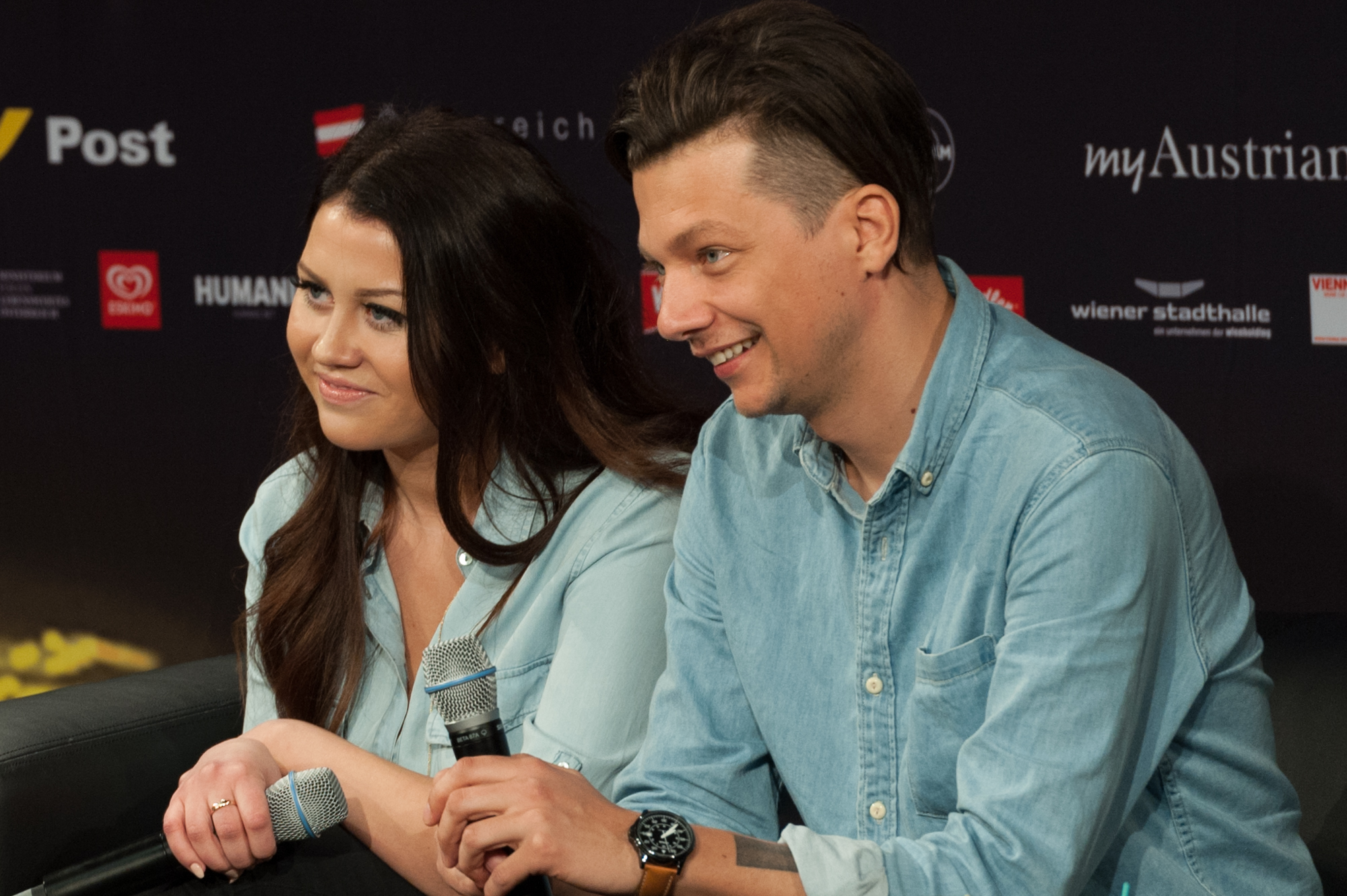 Eurovision Song Contest Vienna 2015: Elina Born & Stig Rästa